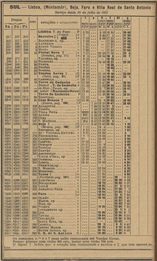 Timetable of 20th July 1913 for the ferries from Lisbon - Terreiro do Paço to Barreiro, and the trains from Barreiro to Vila Real de Santo António via Beja, and in the Montemor Branch Line, in Portugal. This image was published on the Guia Official dos Caminhos de Ferro de Portugal No. 168, of October 1913, and scanned by the Biblioteca Nacional de Portugal.